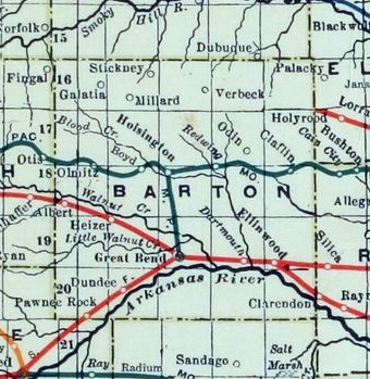 Stouffer's Railroad Map of Kansas, 1915-1918, Barton County.